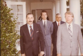 President Videla of Argentina and Jimmy Carter at White House.